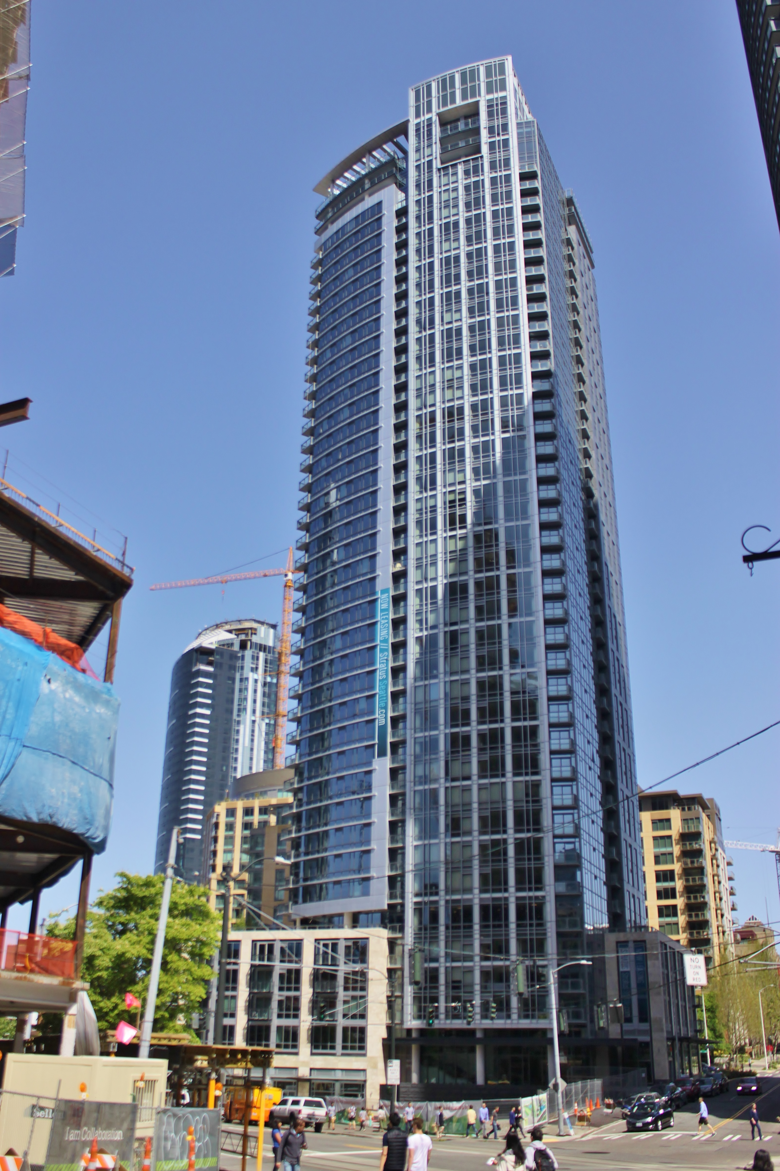 Stratus, a residential high-rise in Seattle's Denny Triangle neighborhood, seen from the intersection of Lenora Street and Westlake Avenue.